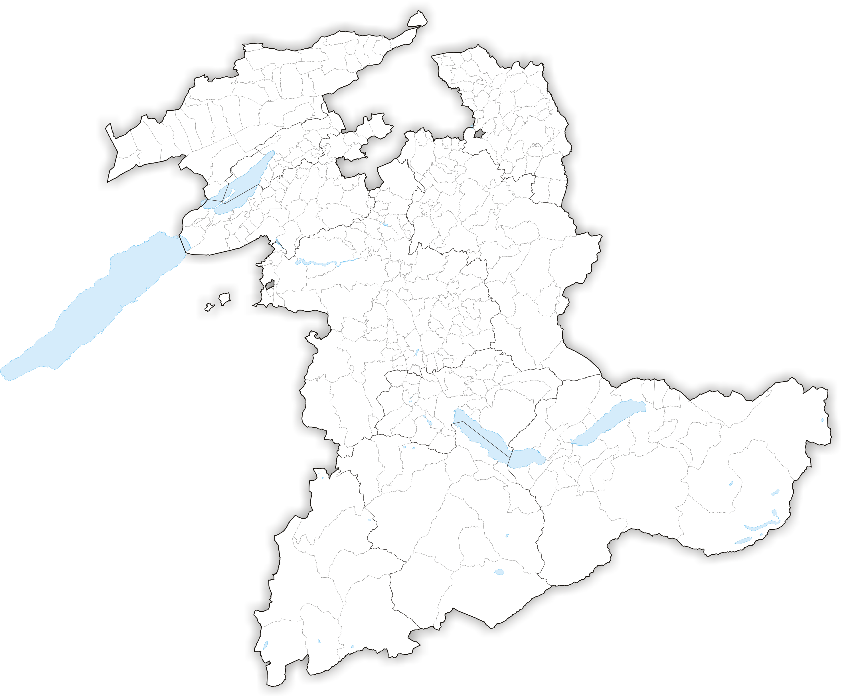 Municipalities in Canton Bern